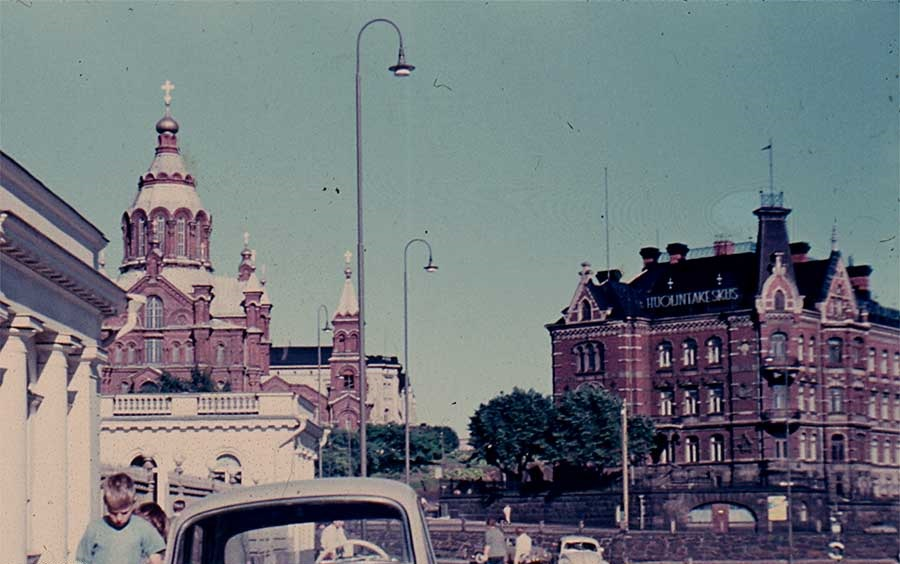 The now-demolished Norrmén house (right) in Helsinki's Katajanokka district, in an unknown date, seen from the Market Square towards east. Built in 1896-97 and demolished in 1960, the plot is currently occupied by the Stora Enso headquarters. On the left is the Uspenski cathedral.